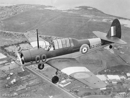 AWM Caption: WACKETT TRAINER, A3-200. LAST OF BATCH OF 200 BUILT, FLOWN BY MR J.O. CARTER, CIVILIAN PRODUCTION TEST PILOT. FISHERMENS BEND (MELBOURNE) AREA, 1942-04-22; FROM WIRRAWAY A20-584 FLOWN BY MR K.M. FREWIN.